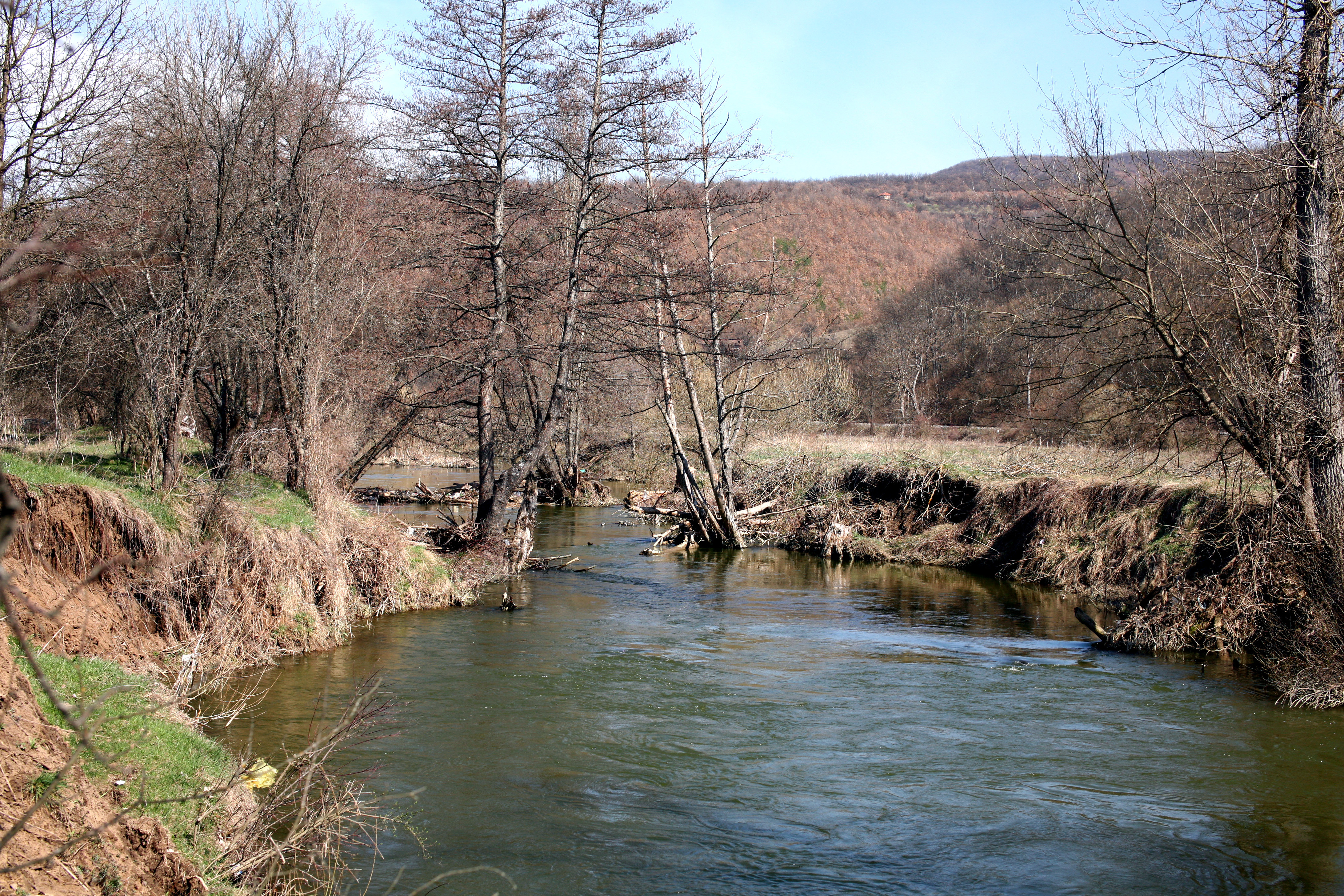 Treklyano River,Bulgaria